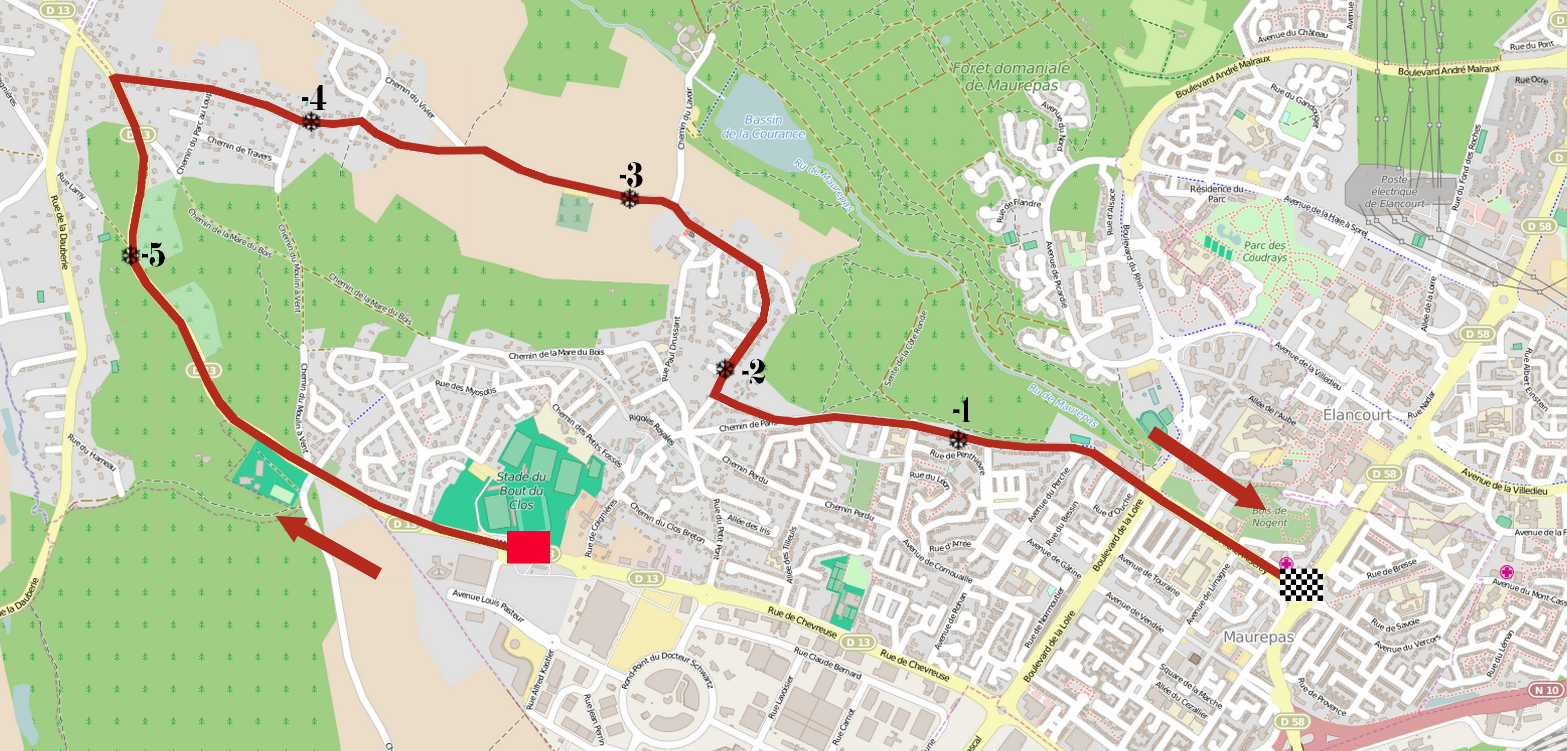 Parcours du prologue de Paris-Nice 2015. This map may be incomplete, and may contain errors. Don't rely solely on it for navigation.